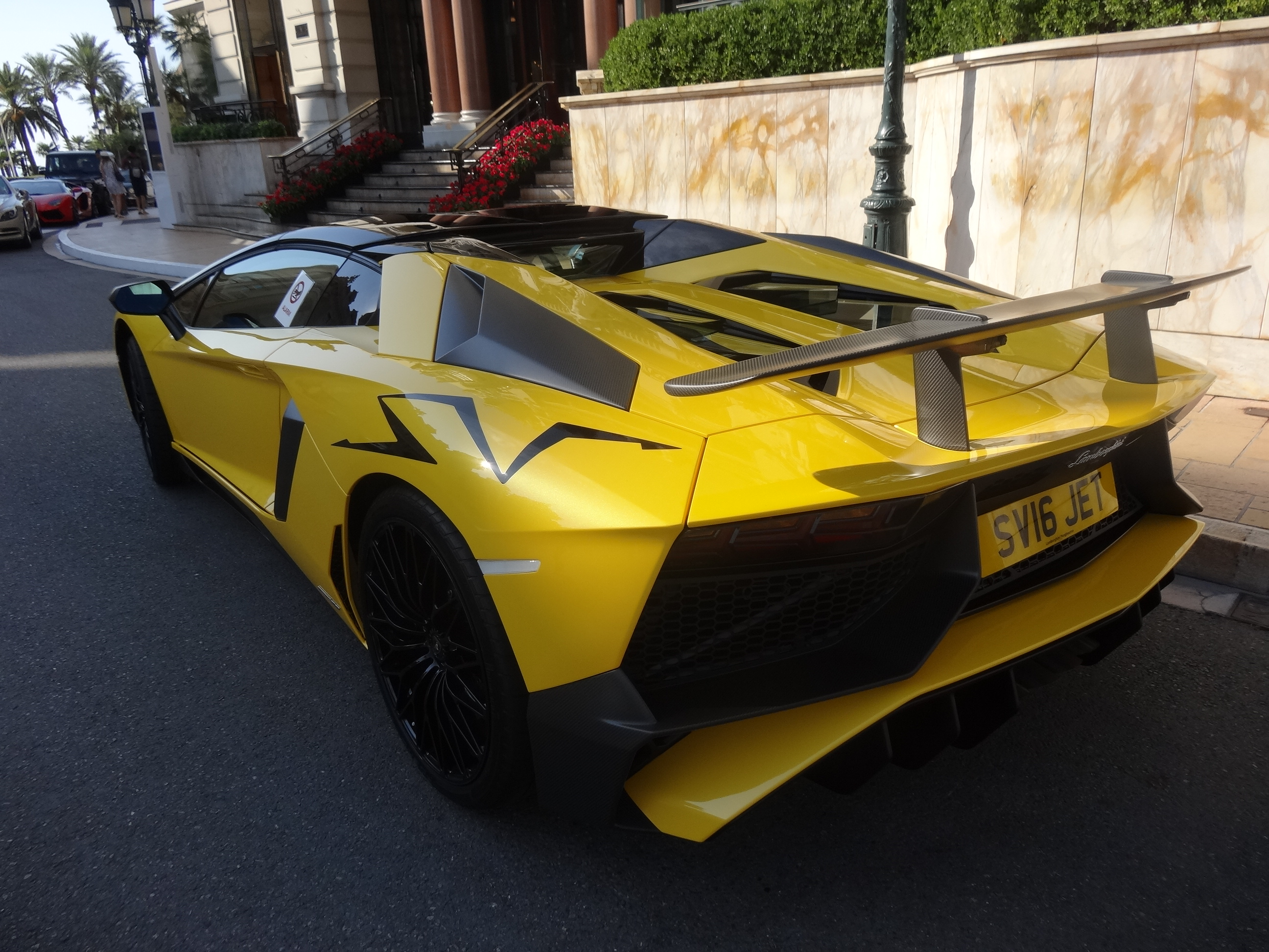 Yellow Lamborghini parked in between the Casino de Montecarlo and the Hotel de Paris, Monaco. August 2016.